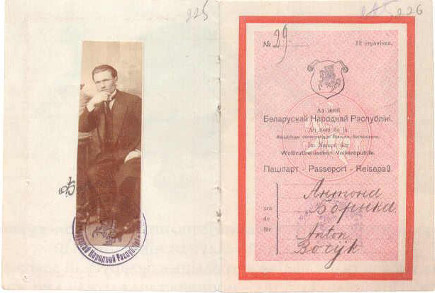 Passport of Belarusian People's Republic